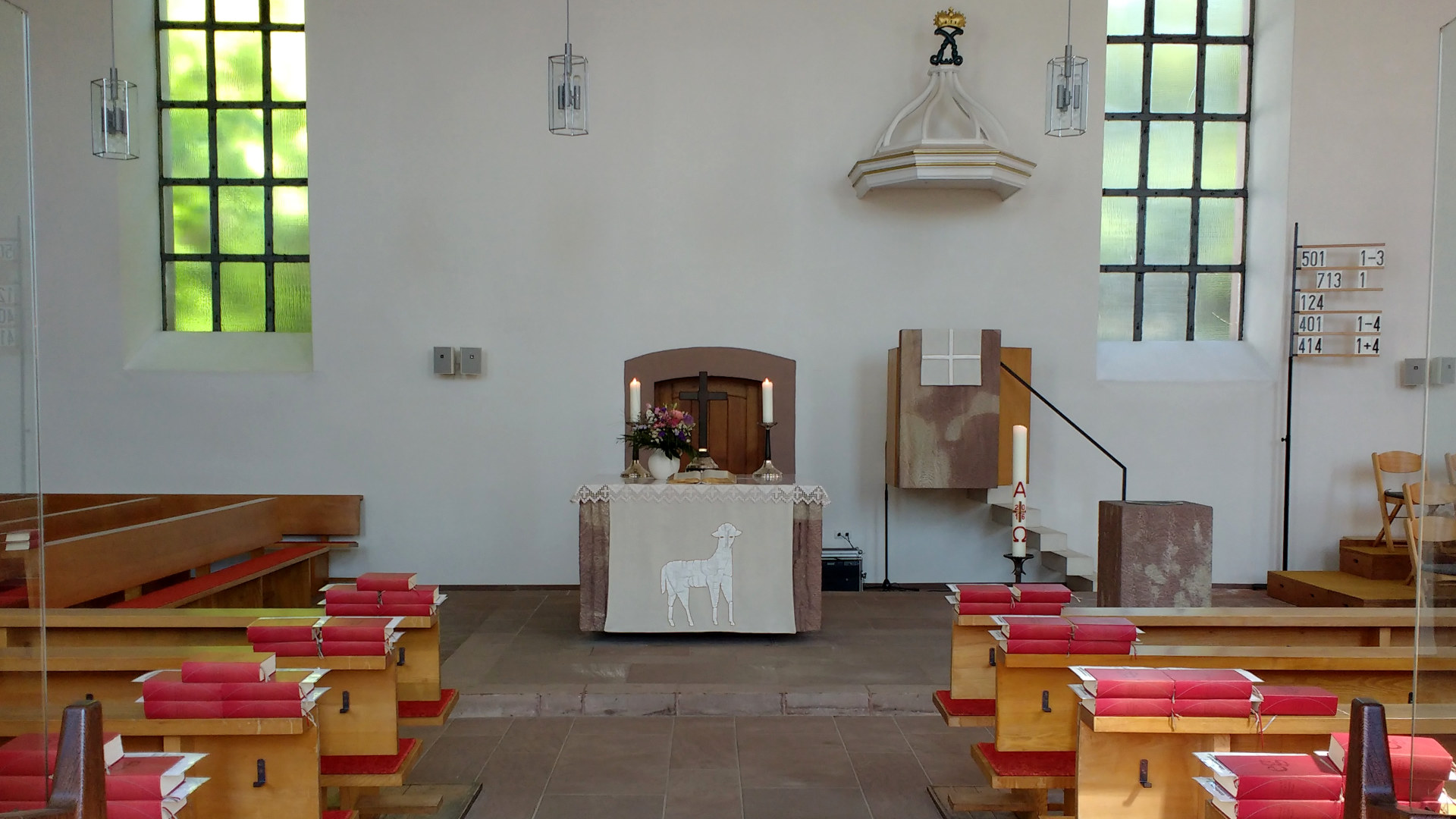 Sanctuary of the Protestant Church of Niederlinxweiler